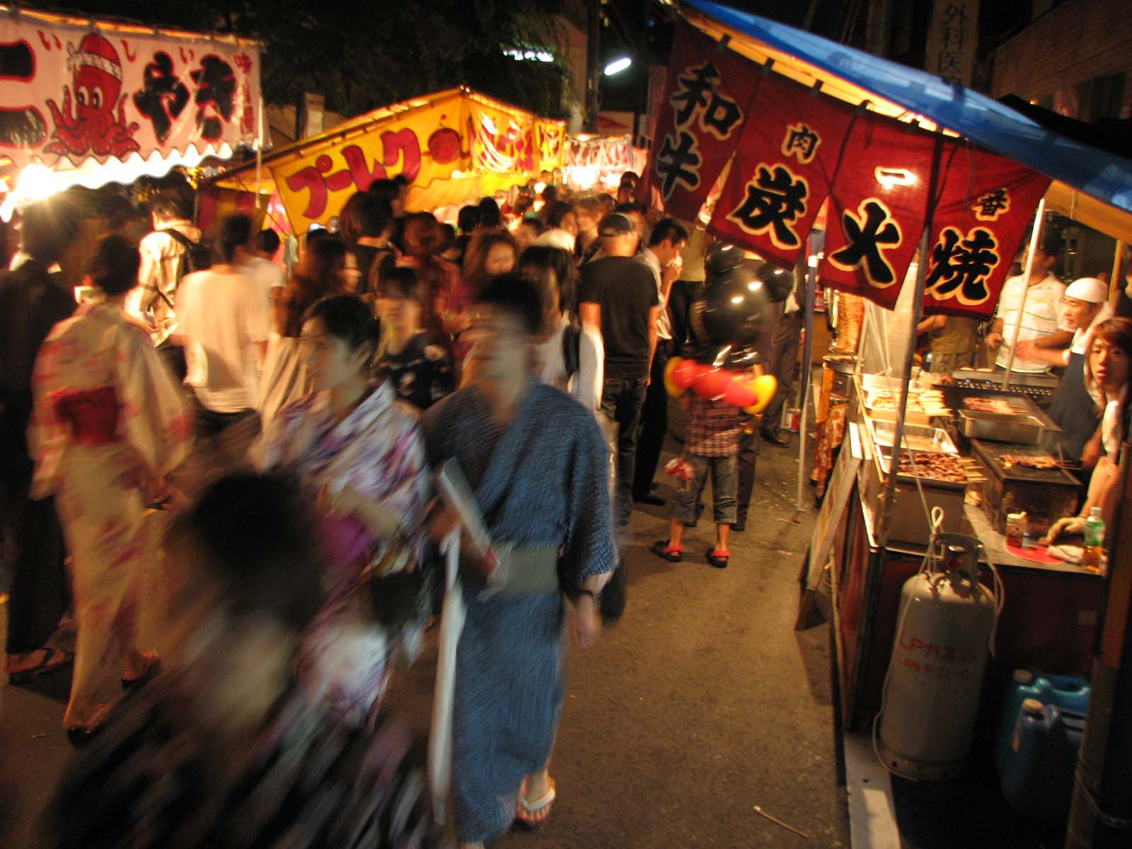 description:Vending stalls lining the side streets. photographer: Chris Gladis photographer location:Kyoto, Japan flickr_url: [1]